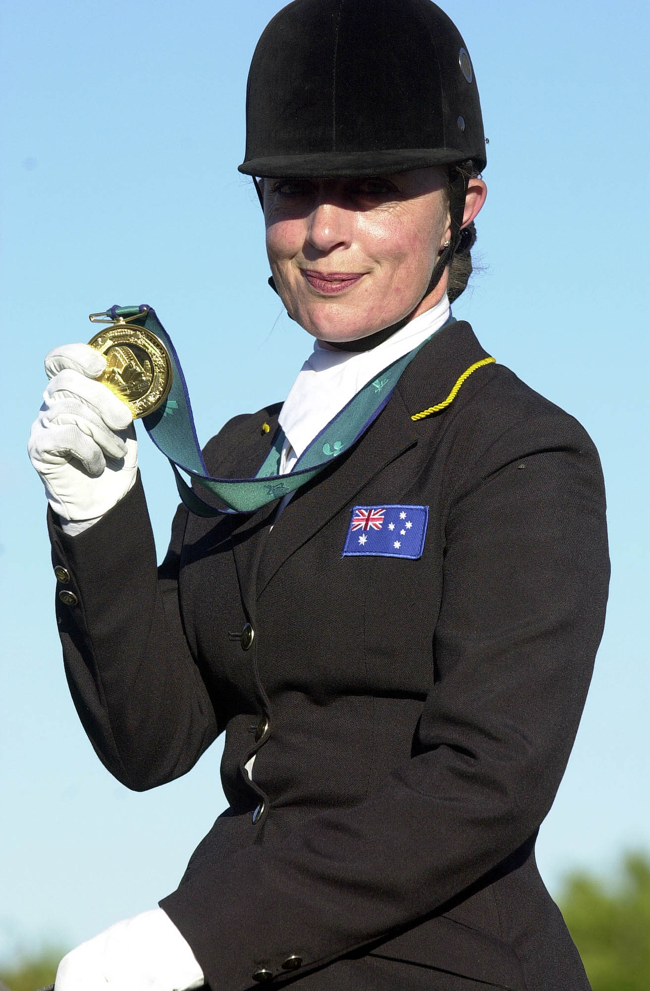 Australian equestrian Julie Higgins with her gold medal won at the 2000 Sydney Paralympic Games Individual Dressage Grade 3 competition